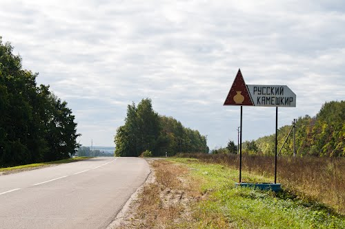 Знак при въезде в поселок